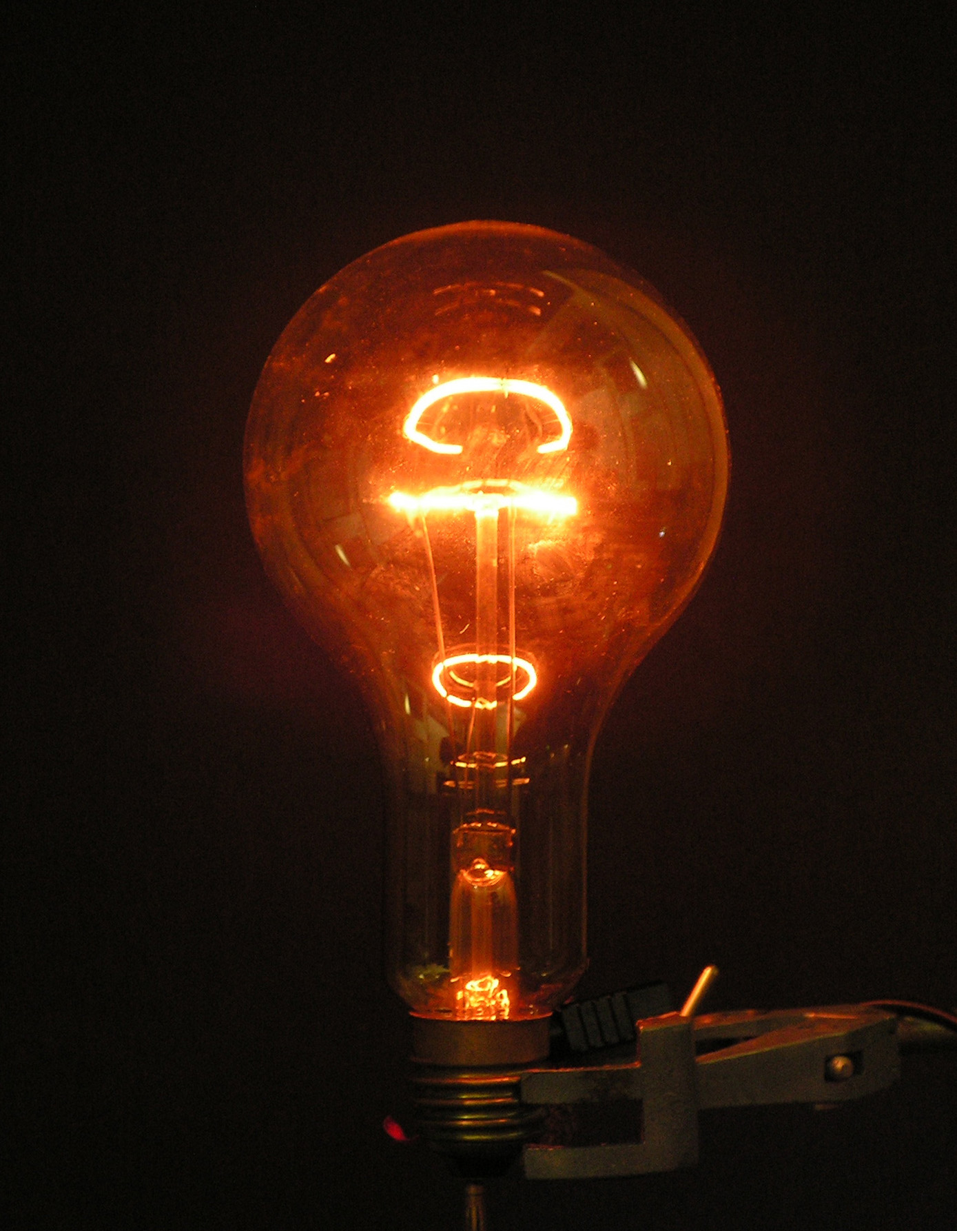 author : Noé LECOCQ